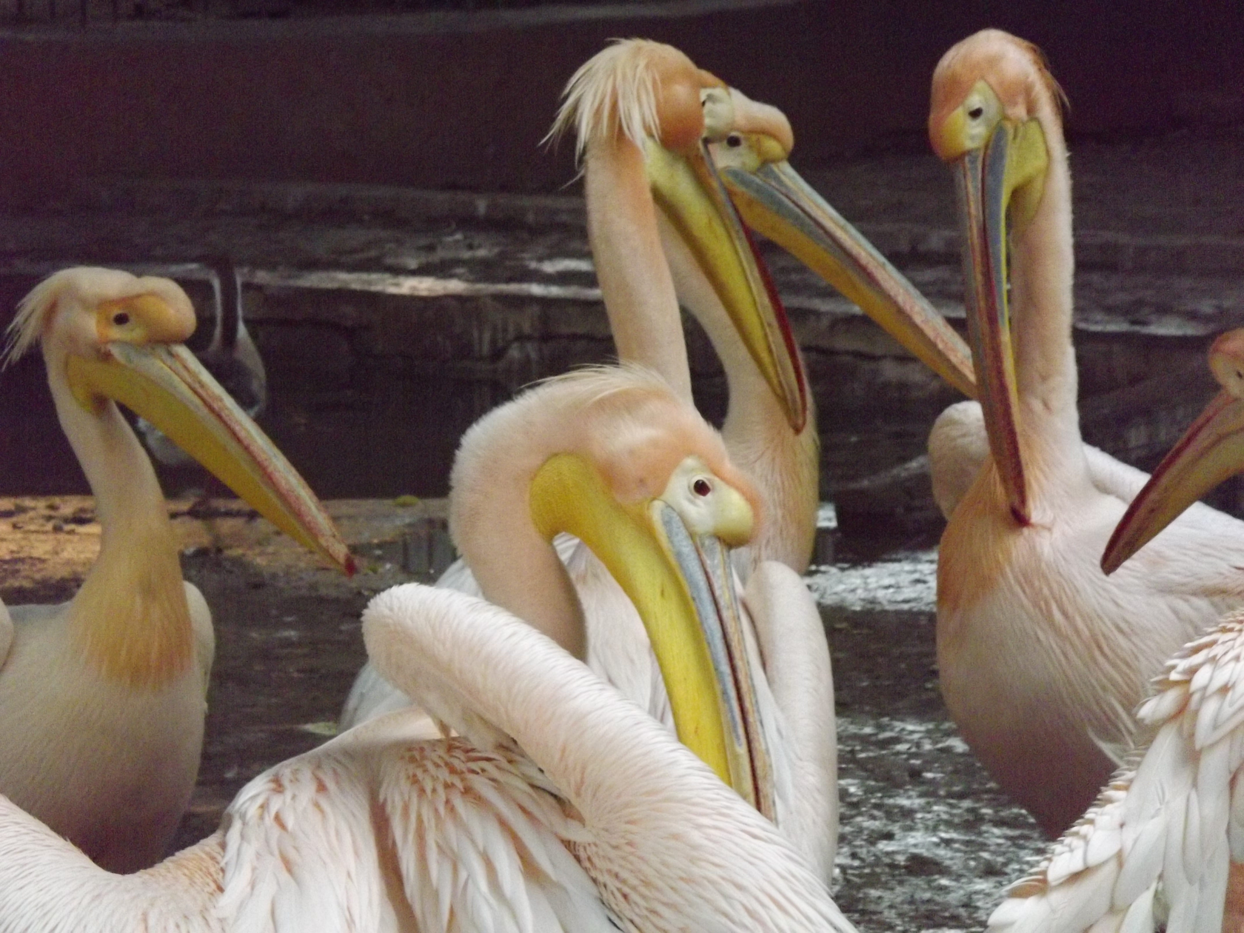 White Pelican